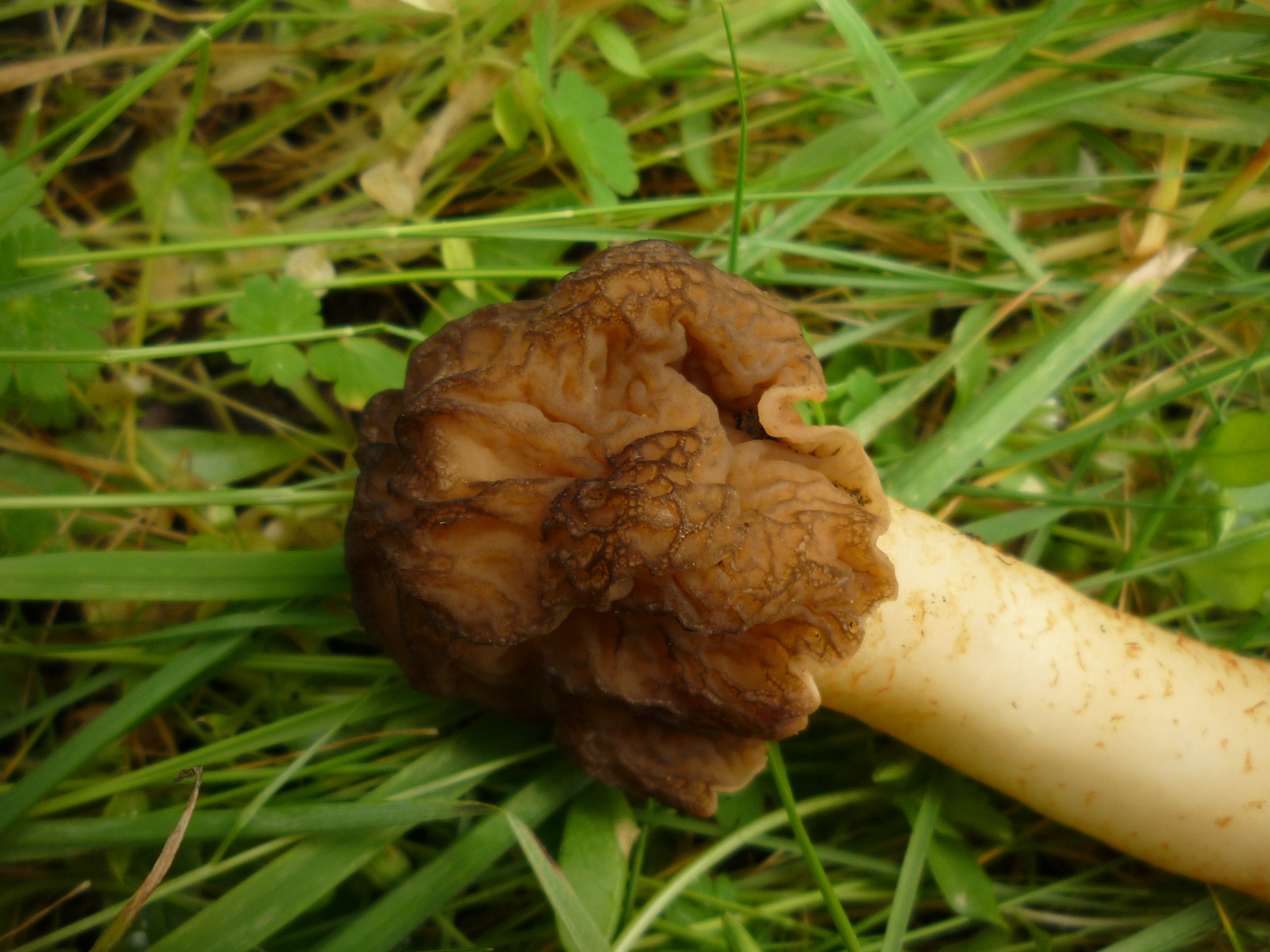 Verpa conica (O.F. Müll.) Sw., Location: Putah Creek Rd., Southwest of Winters, California, USA